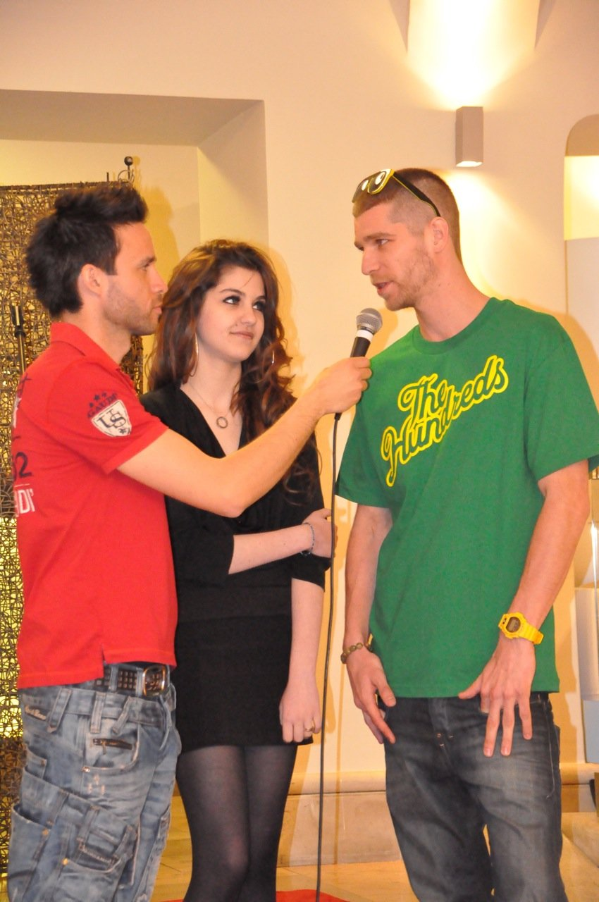 Celeste Buckingham and Majk Spirit at the presentation of Buckingham's Nobody Knows CD in Prague, photographed by Lukáš Dvořák.